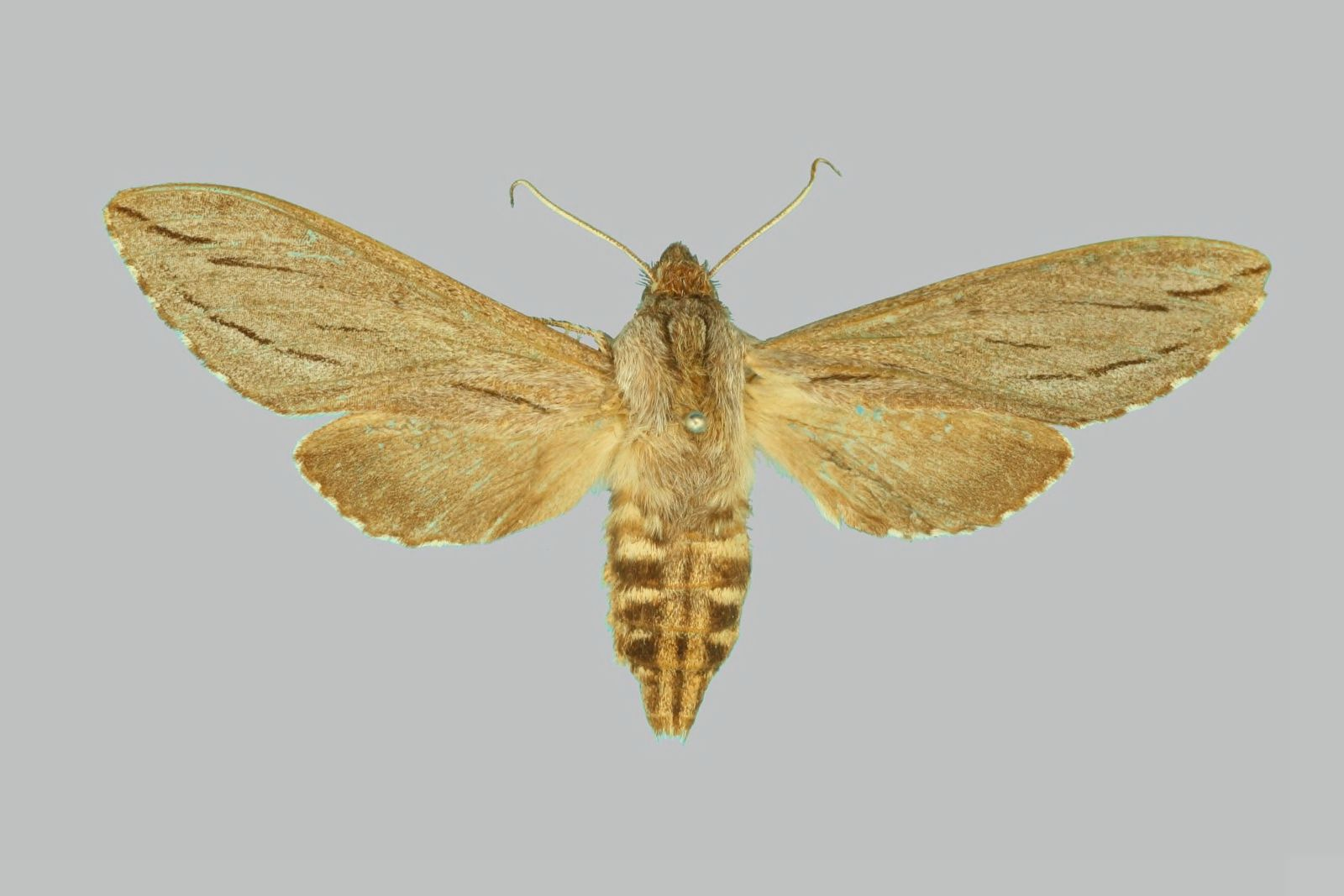 Sphinx sequoiae, female, upperside. United States, California